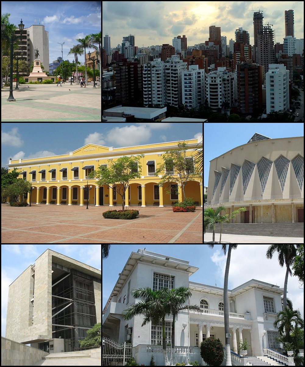 Photo montage of the city of Barranquilla,Colombia.